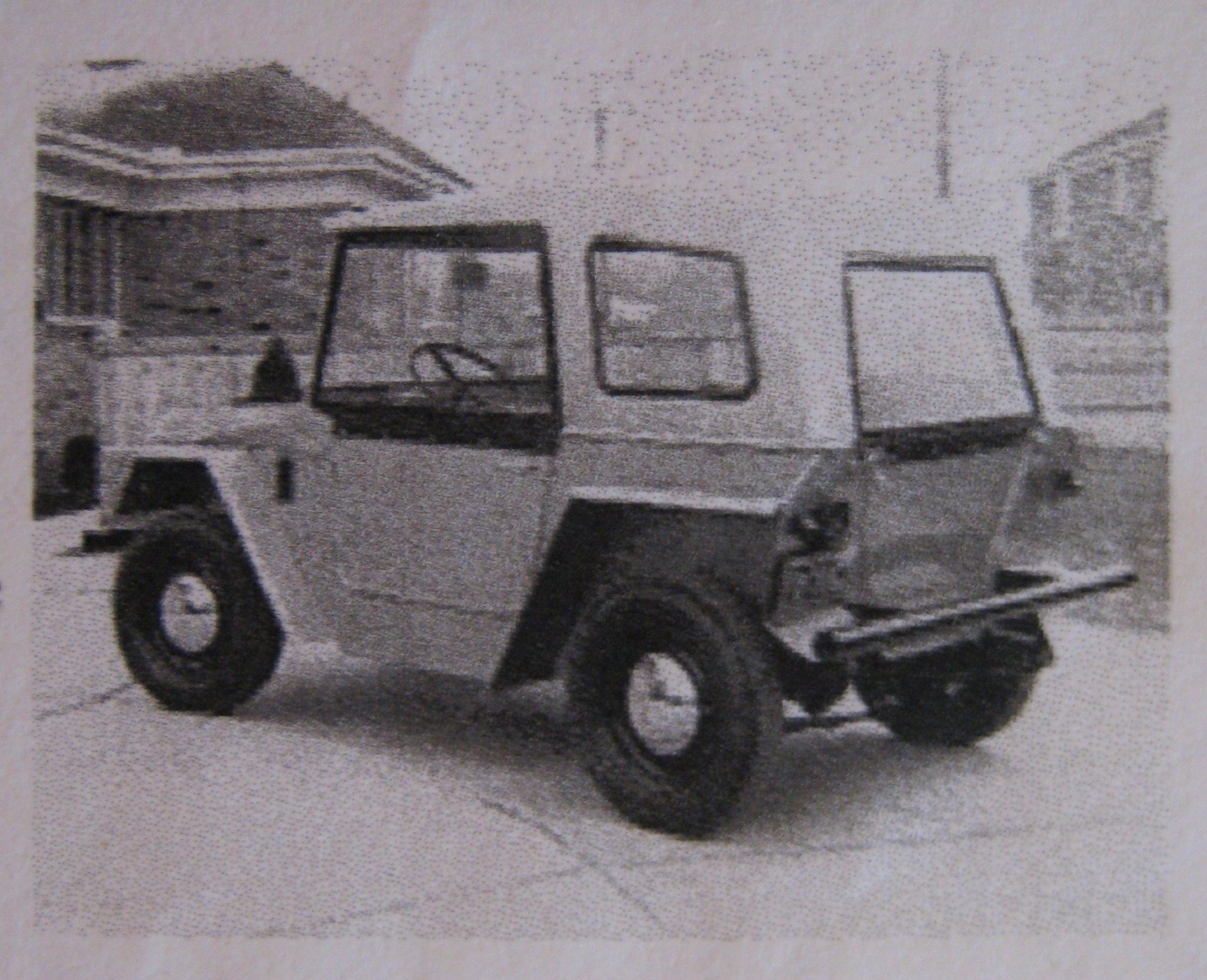 If anyone knows about this, I will be really surprised. I talked to builder about 15 years ago, three were made, two attempts at production, likely none exist today. This picture came from a newspaper article. There don't seem to be any others.